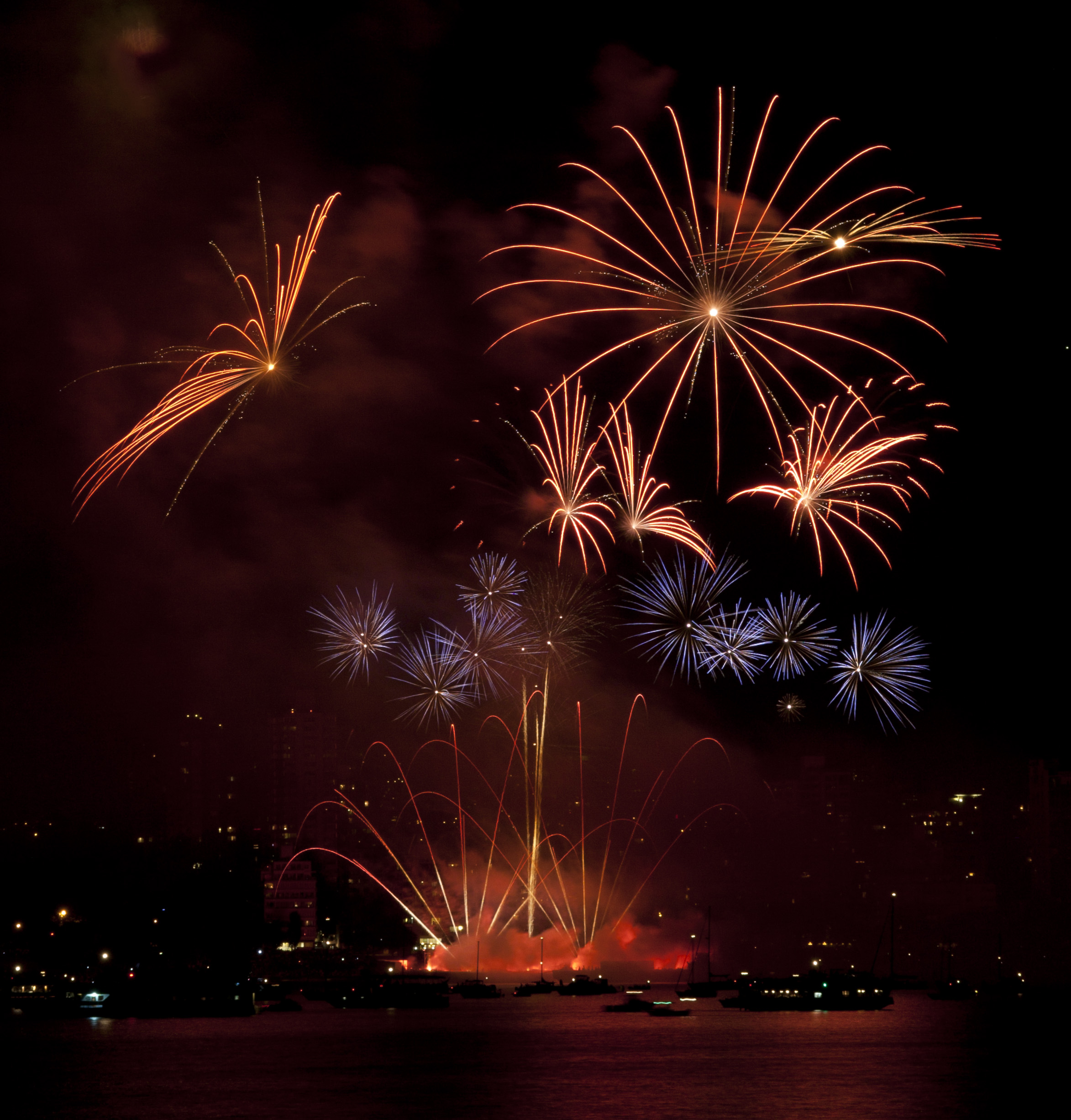 Fireworks at the 2010 Celebration of Light fireworks festival in Vancouver, BC.